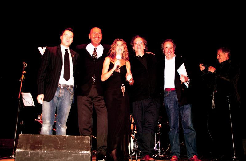 Italian Jazz Awards 2007, red carpet show - Genoa Tosse's Theater, from left to right Mr. Samuel J. Morris, Mr. Dado Moroni (Best Jazz Act 2007), Ms. Danila Satragno ( Best Jazz Singer 2007), Mr Uri Caine, Mr Franco Ambrosetti.